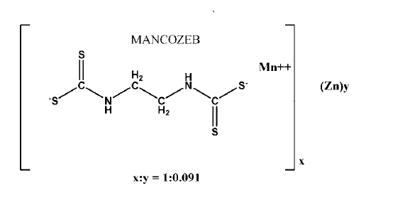 Mancozeb